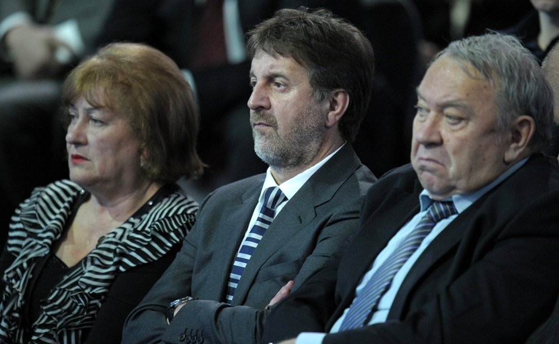 Direct Line with Vladimir Putin (2014-04-17)